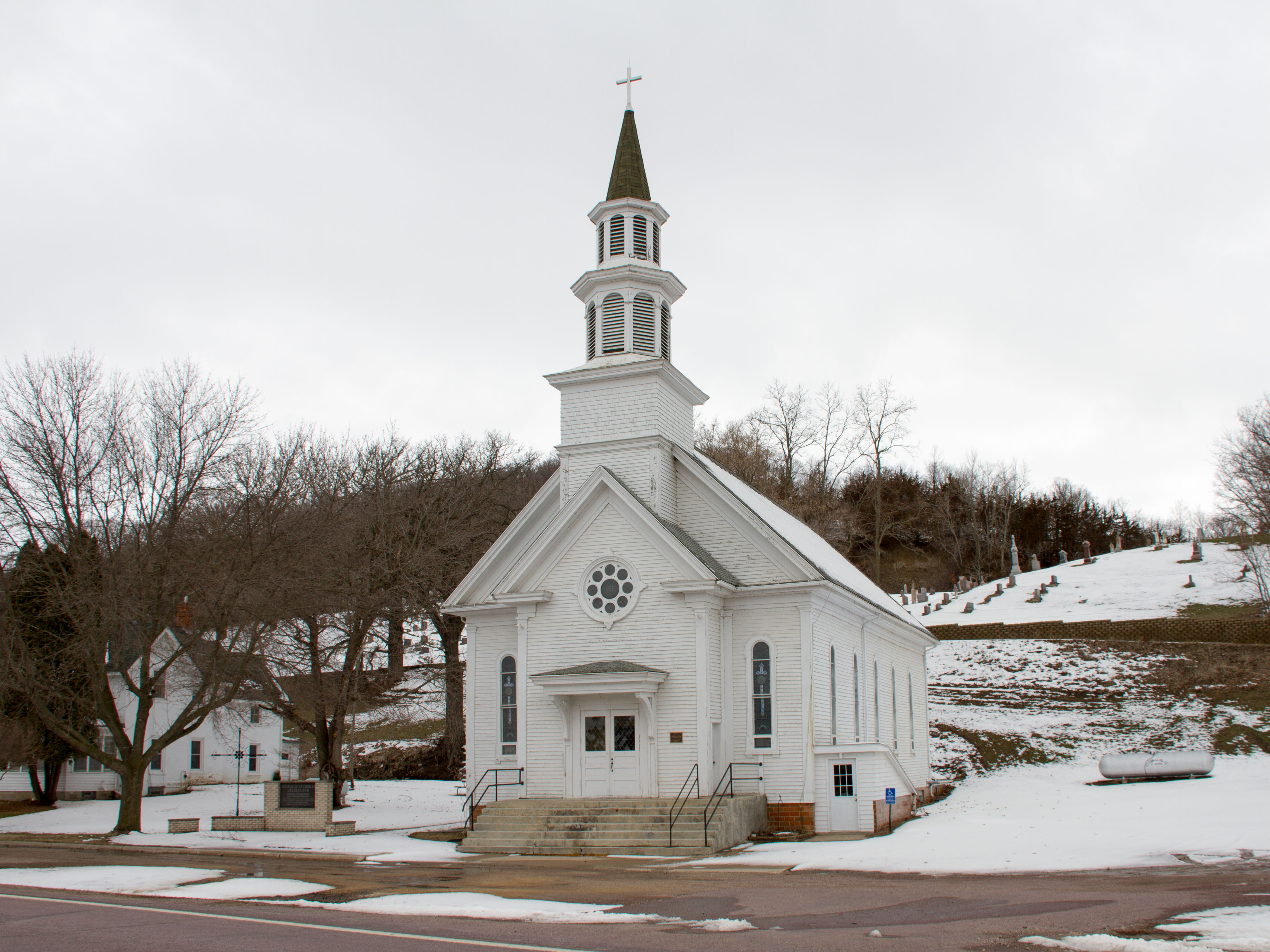 Church of St. Thomas, now maintained as the Oratory of St Thomas the Apostle by the Diocese of New Ulm, Jessenland Township, Sibley County, Minnesota, USA.